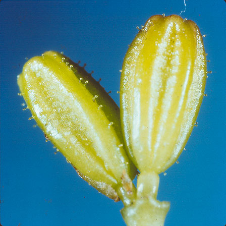 The yellow fruits of Boerhavia have sticky hairs and ribs, ideal for attaching onto feathers.